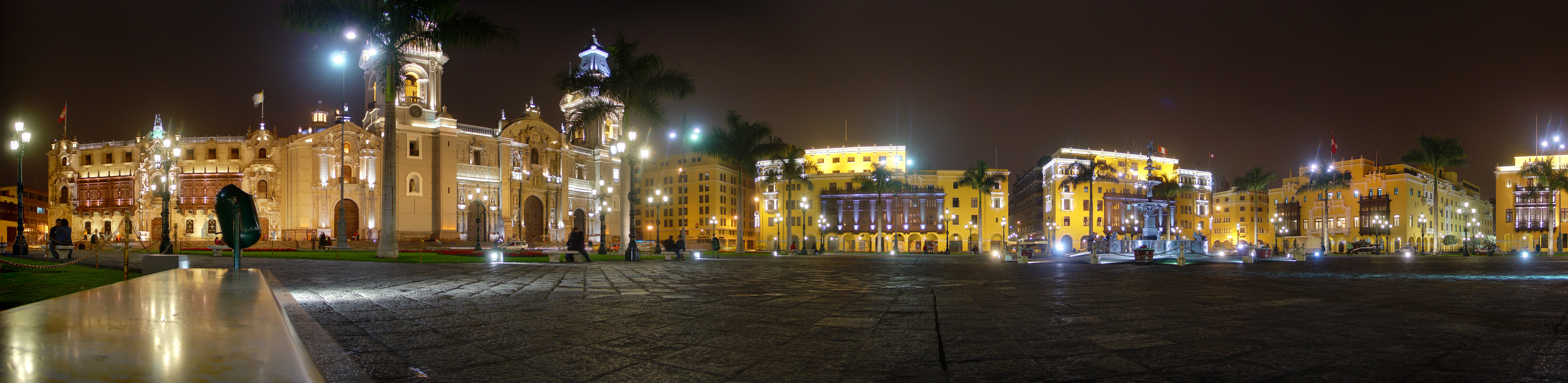 Please, have this description accessible to all by translating it in different languages.